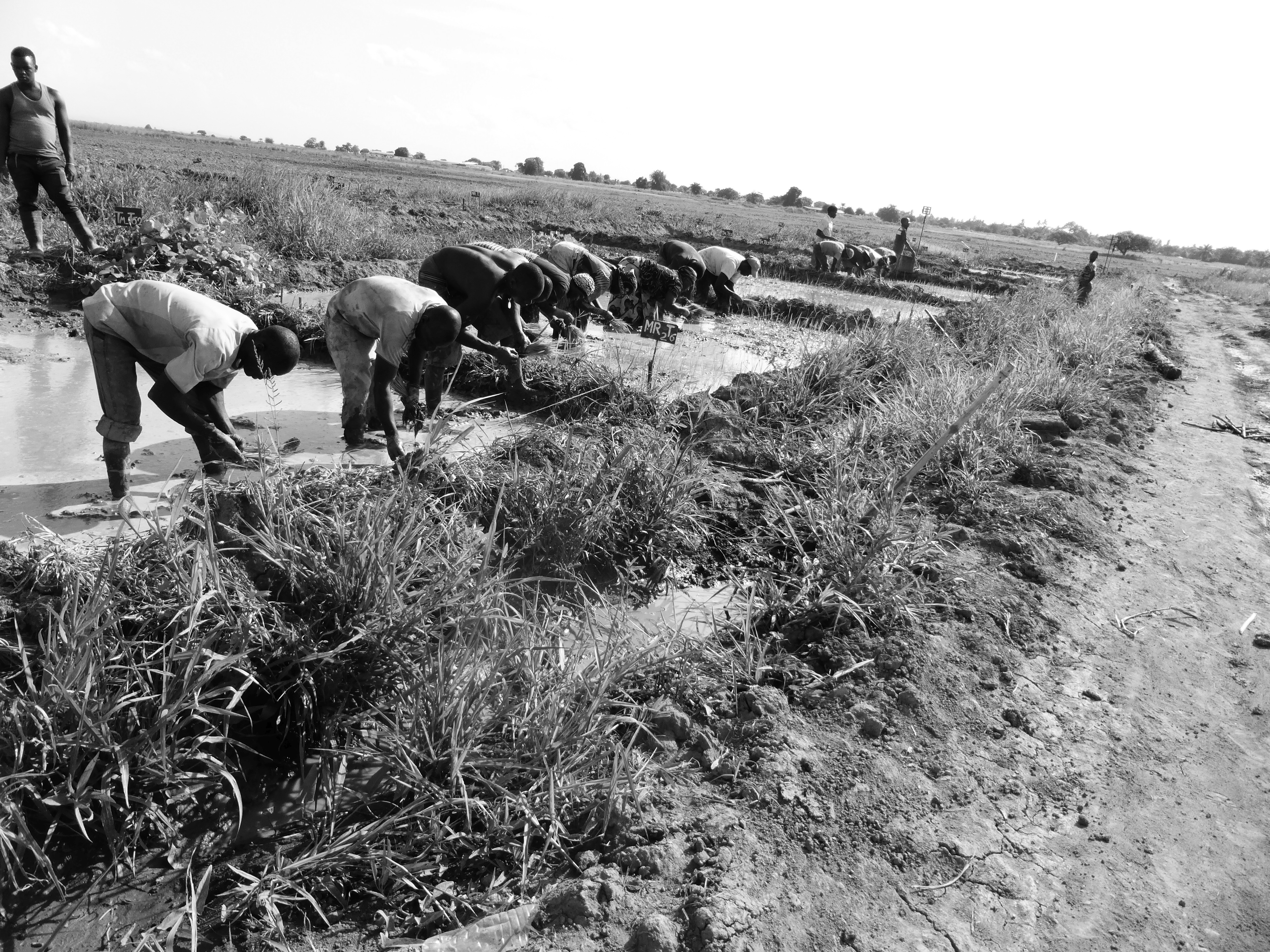 Rice transplanting involving both women and men. This is done to reduce on the labor and fasten the planting period since the rains are shot. This is an image of "African people at work" from Tanzania